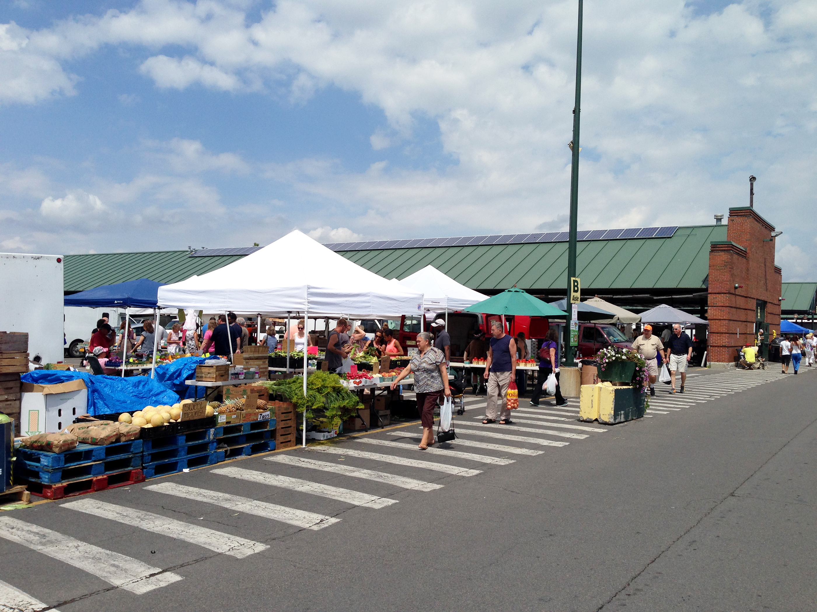 Central New York Regional Market, Syracuse NY, Aug. 2015